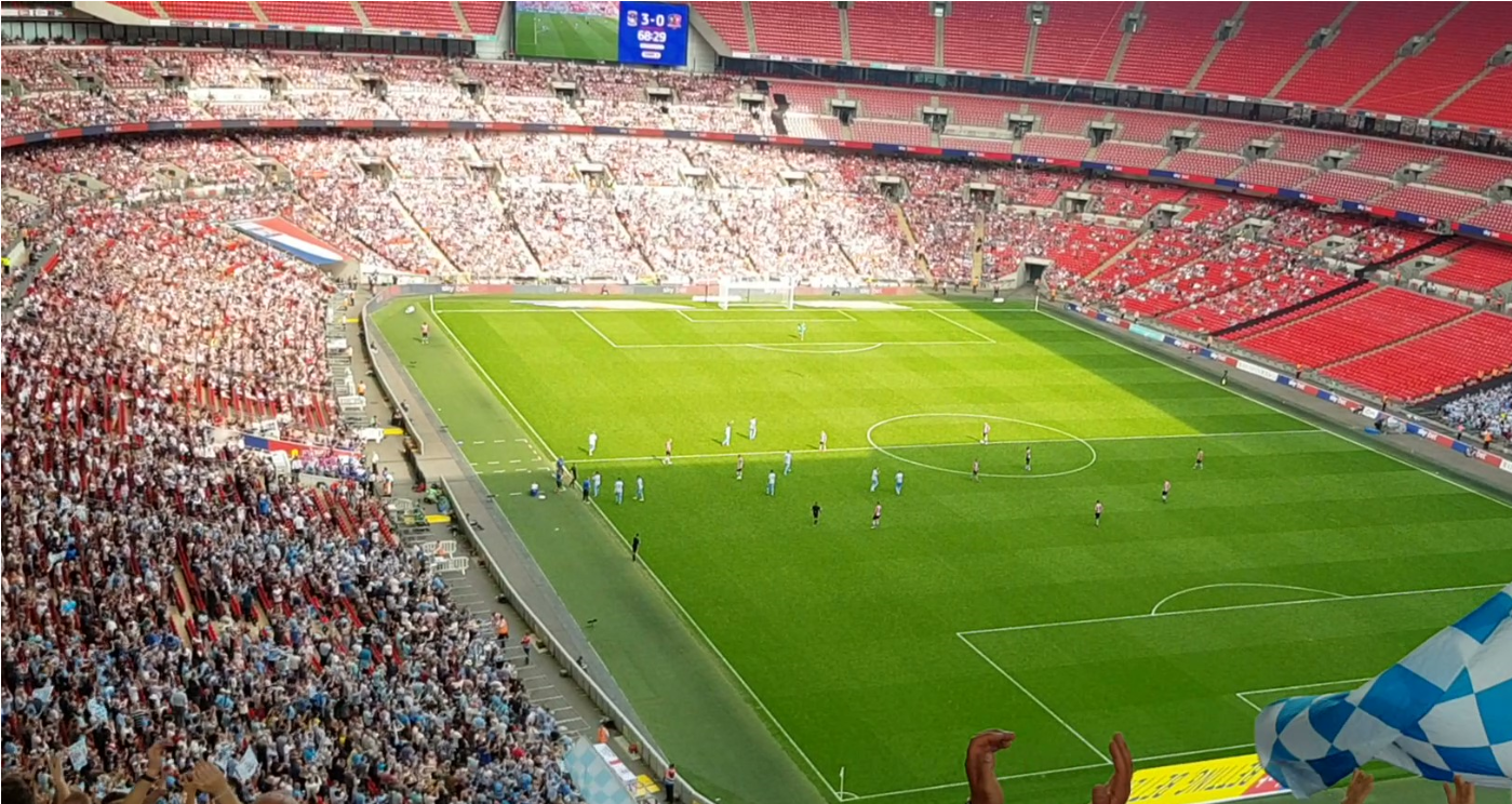 Coventry City F.C. celebrate their third goal in the play-off final against Exeter City F.C.